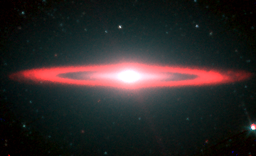 Image of the M104 galaxy in infrared at 3.6 (blue), 4.5 (green) and 8.0 µm. The image has been made by myself (Médéric Boquien) from the public image archive of the Spitzer Space Telescope (courtesy NASA/JPL-Caltech).